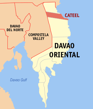 Map of the Davao Oriental showing the location of Cateel